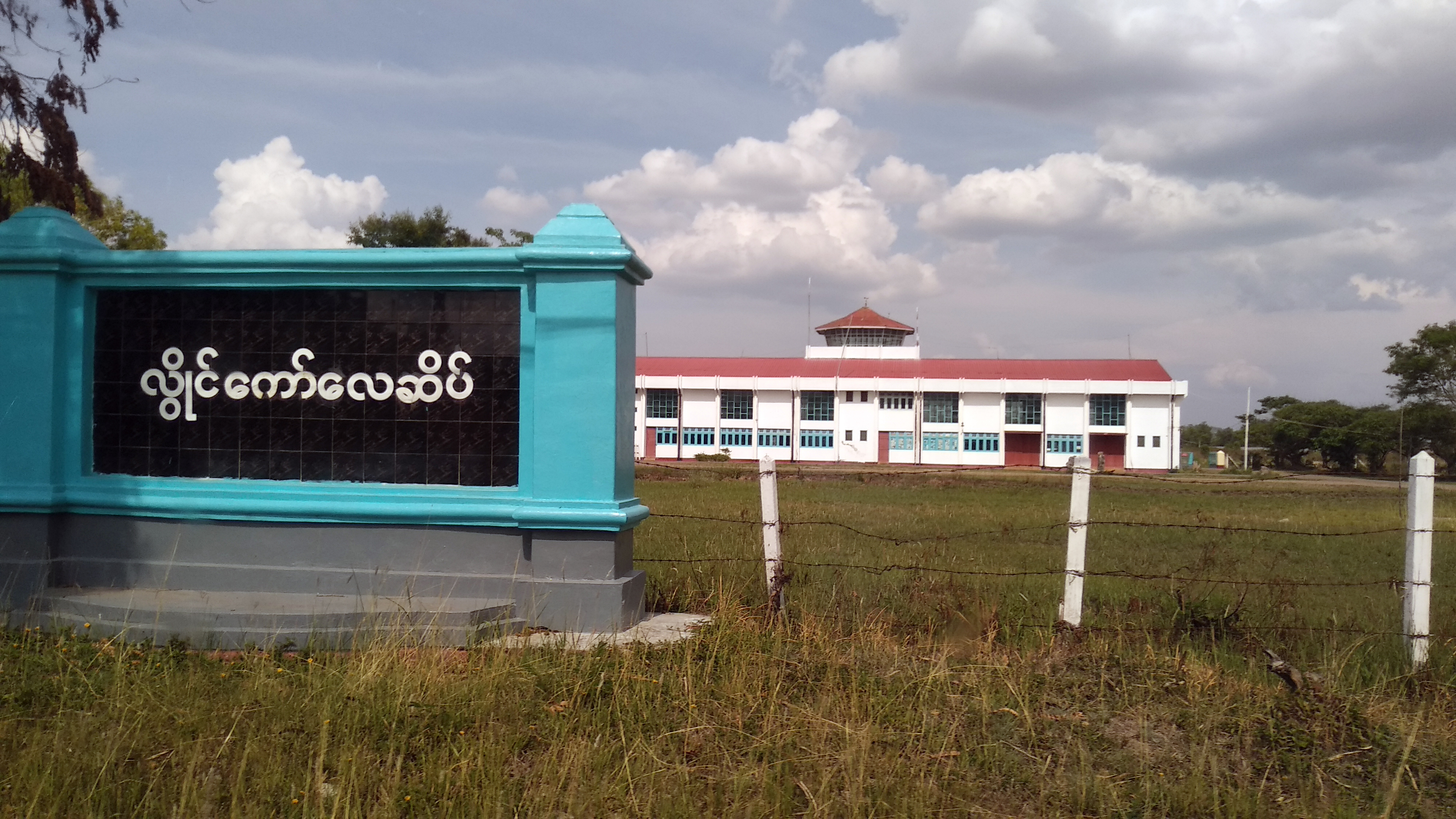 Loikaw Airport မြန်မာဘာသာ: လွိုင်ကော်လေဆိပ်